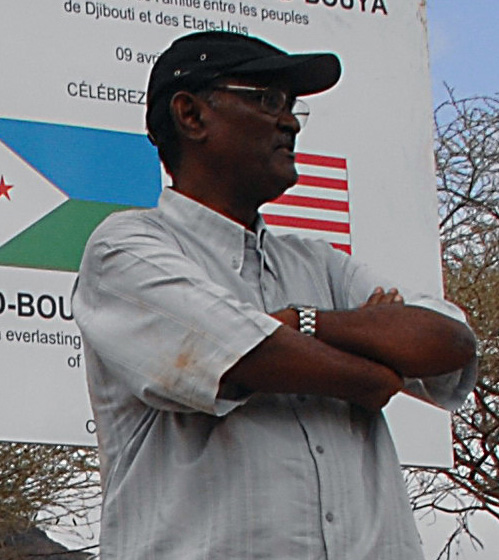 Dr. Gamal, addresses villagers and Combined Joint Task Force - Horn of Africa team members, Lieutenant Commander Jorge Contreras, translator Madina Abdallah and Chief Petty Officer Charles Grevious, during a well dedication ceremony at Ad Bouya, Djibouti.